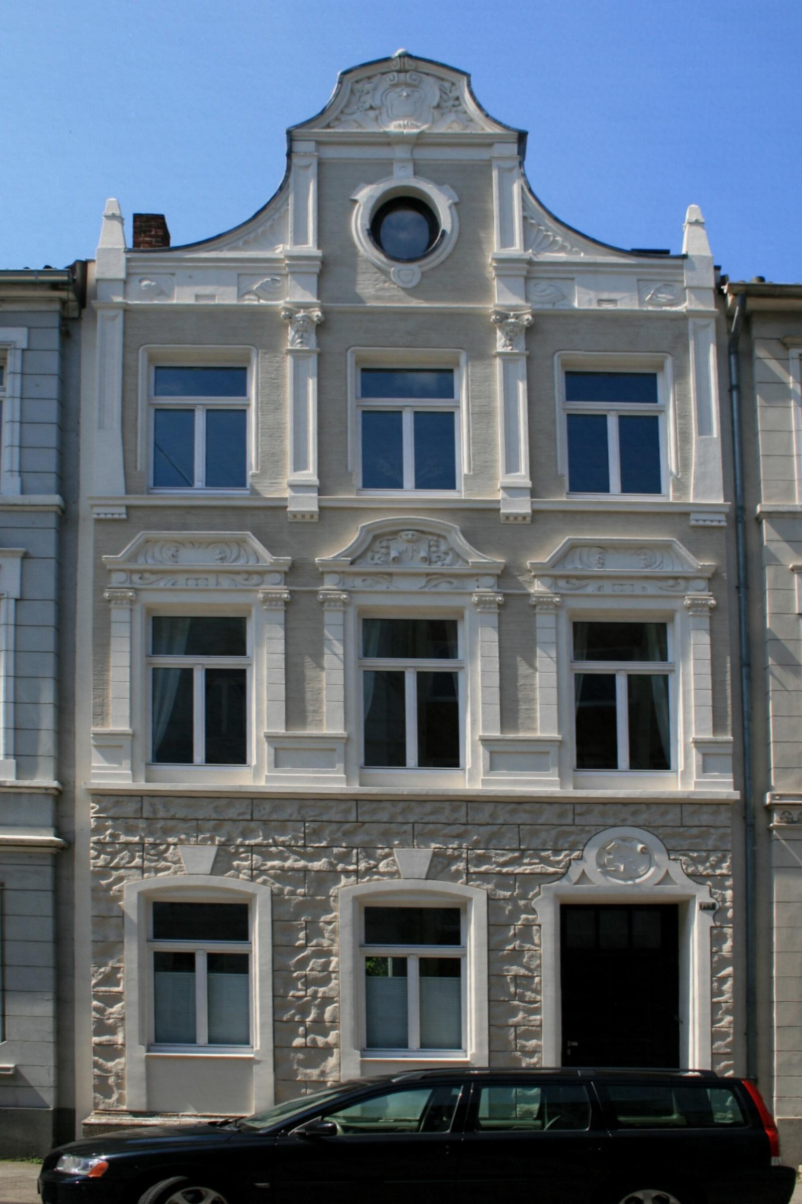 Cultural heritage monument No. R 057 in Mönchengladbach